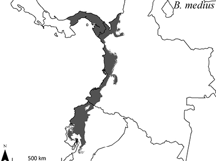 Predicted distribution for Bassaricyon medius, based on bioclimatic models. To create these binary maps we used the average minimum training presence for 10 test models as our cutoff. In addition, we excluded areas of high probability that were outside of the known range of the species if they were separated by unsuitable habitat. Helgen K, Pinto C, Kays R, Helgen L, Tsuchiya M, Quinn A, Wilson D & Maldonado J. (2013). "Taxonomic revision of the olingos (Bassaricyon), with description of a new species, the Olinguito". ZooKeys 324: 1--83. Pensoft Publishers. Retrieved on 2013-08-16.